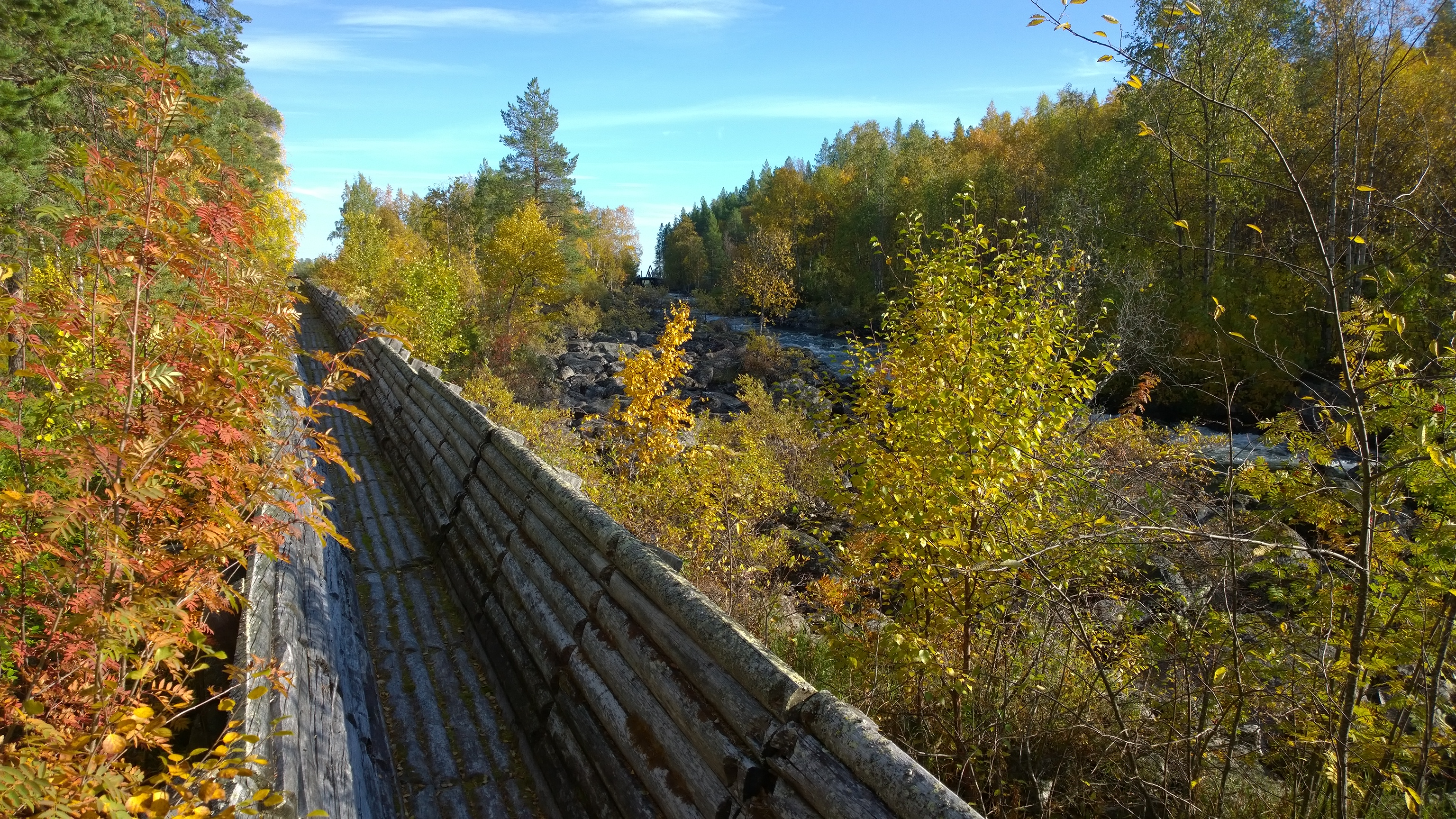 A log flume in Nellim in Northern Finland. It was only used for a few years in the 1930s. Its total length is 304 meters and the water falls 16.8 meters.Sääʹmǩiõll: Njeäʹllem vuejjtemkuäʹbrrAnarâškielâ: Njellim vuojâttemränniNorsk bokmål: Tømmerrenna i Nellim, Finland